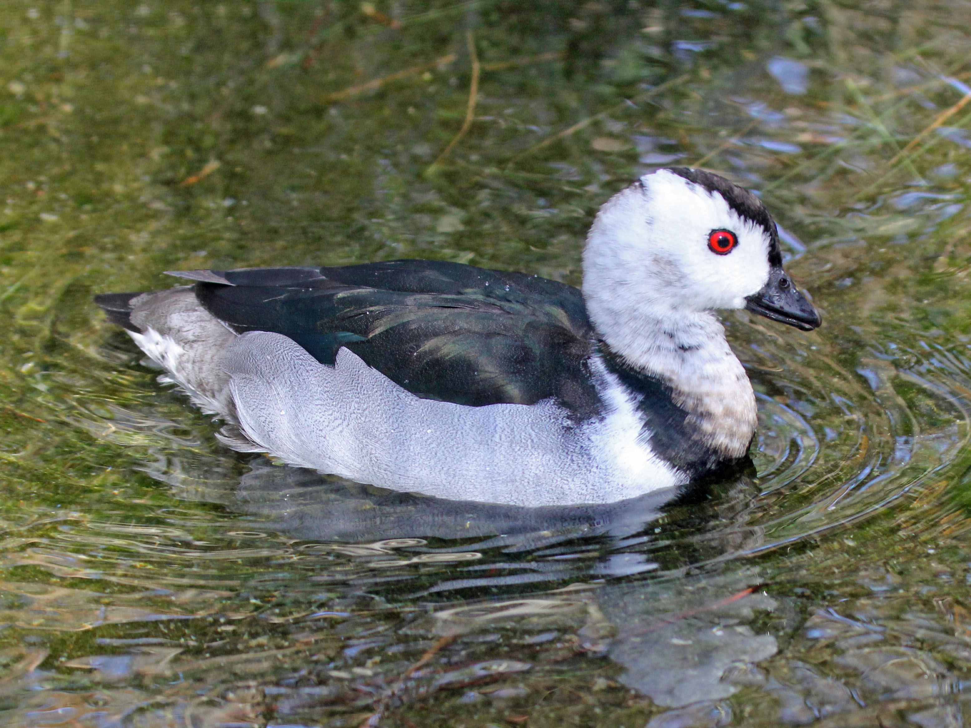 Male Cotton Pygmy Goose (Nettapus coromandelianus) - Sylvan Heights Waterfowl Park in Scotland Neck, North Carolina.